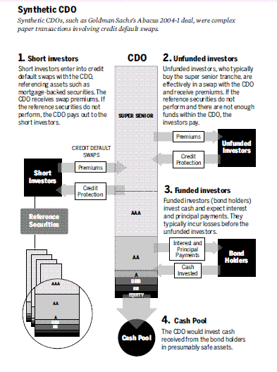 How a synthetic CDO works